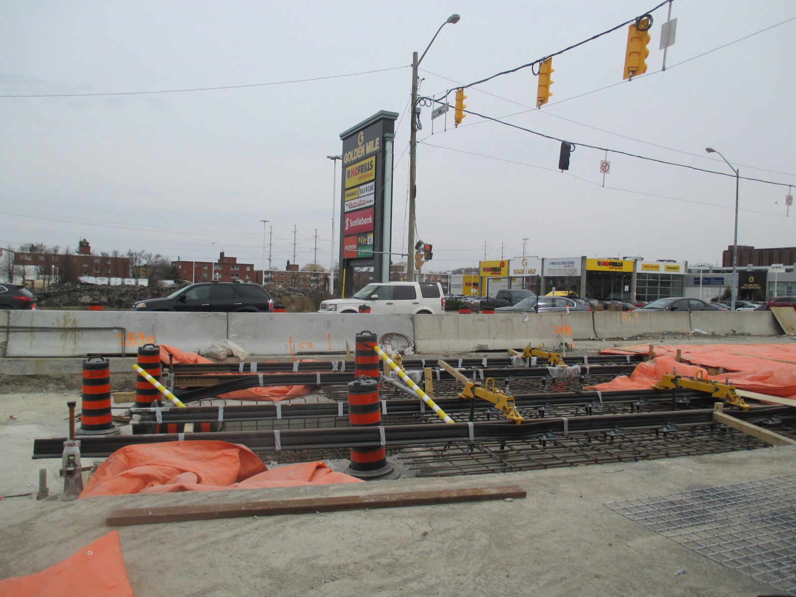 By April 7, 2019, construction crews have started to lay rails on the east side of the O'Connor stop at Eglinton Square.